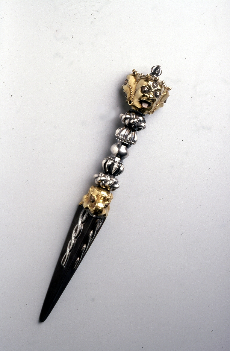 Originally the "phur-bu" was probably a simple peg used to secure tent ropes to the ground. No doubt the ability of the peg to pierce gave rise to the expression, "kilaya kilaya," (pierce, pierce) often a component of tantric mantras along with "han han," (destroy, destroy) or "maraya maraya," (kill, kill). The objects of destruction are, of course, enemies of the faith, evil forces, as well as psychic demons. This example, typically Tibetan in form, is particularly handsome and visually powerful. It has a three-sided iron blade adorned with silver intertwined serpents and a golden "makara" (mythical aquatic creature) guarding the joint of the hilt and the blade. Then, a silver thunderbolt with sixteen prongs has two knots of immutability at the two ends. The finial has three wrathful heads with open mouths and hanging tongues crowned by prongs of yet another thunderbolt. The square faces of the deity are particularly expressive, with their strongly molded features and a rich interplay of gilt, silver inlay, and lightly applied pigments.